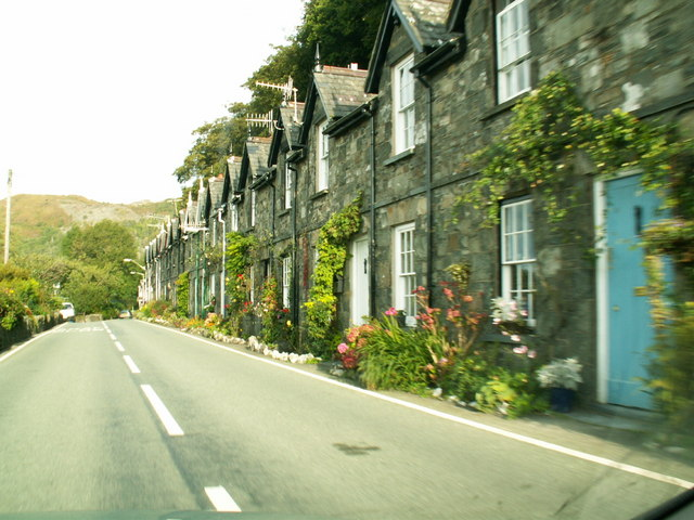 Arthog. Originally intended to be part of a development to rival Llandudno, this terrace and Mawddach terrace, as far as I know, were all that was built. Something to do with flooding of the ground was the problem. You would have to look right and left before stepping out of any of those doors.